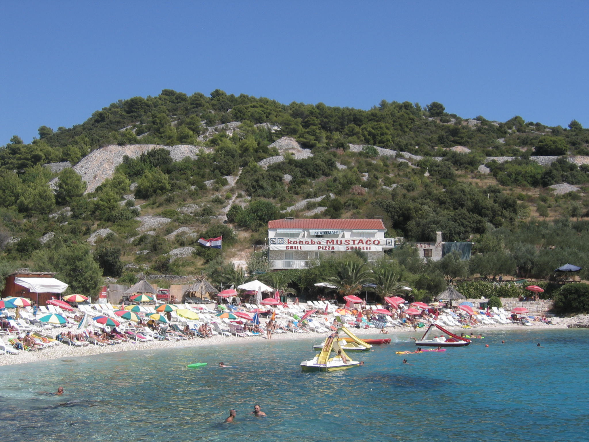 The Pokonji Dol Beach at Pokonji Dol Bay outside Hvar Town, Croatia.